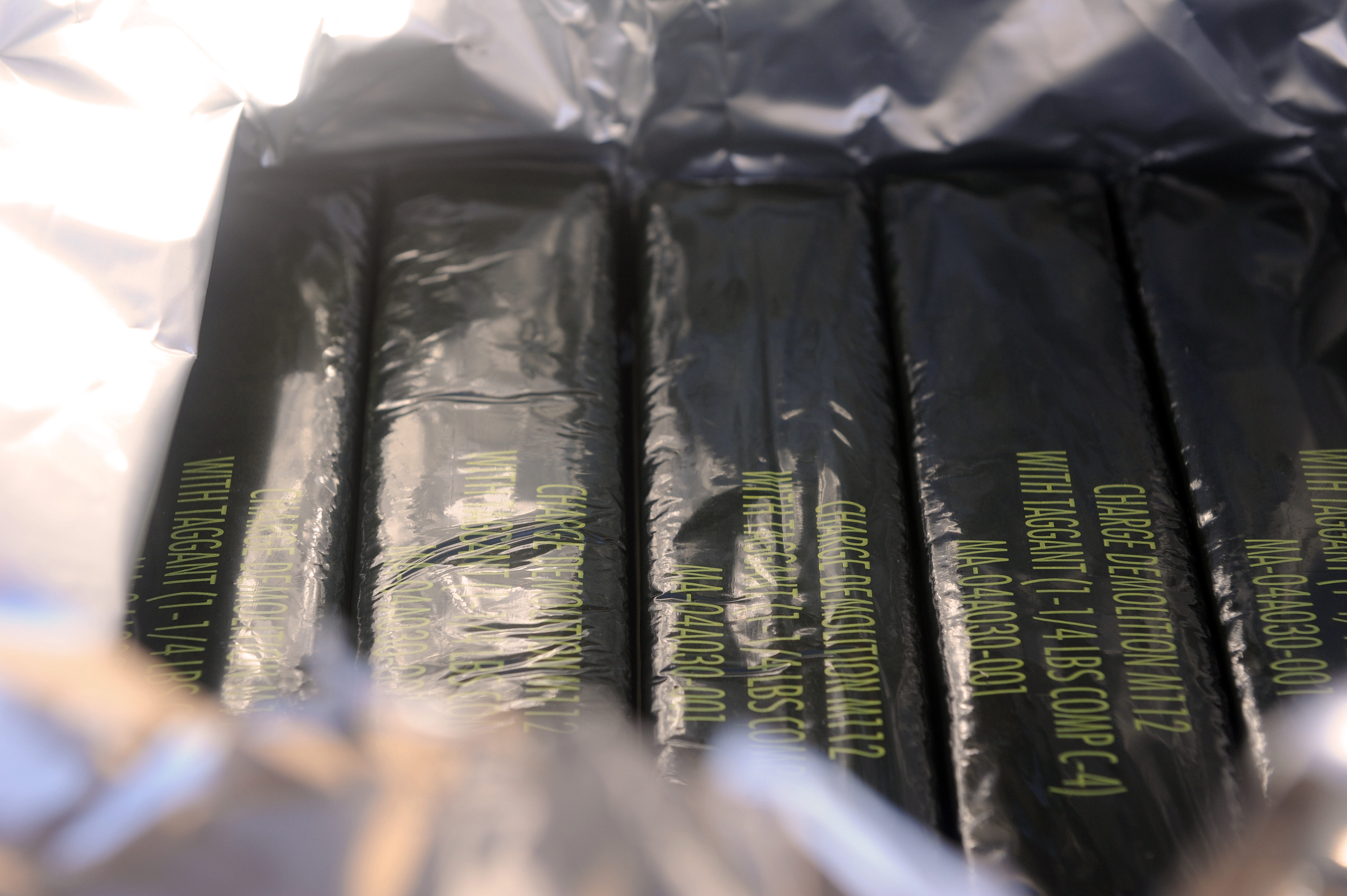 CAMP BUEHRING, Kuwait (Dec. 13, 2011) Composition C-4 demolition charges await use as explosive ordnance disposal technicians assigned to Commander, Task Group (CTG) 56.1, conduct demolition operations supervisor training. CTG 56.1 provides mine counter-measure, explosive ordnance disposal, salvage-diving, counter-terrorism and force protection for the U.S. 5th Fleet area of responsibility. (U.S. Navy photo by Chief Mass Communication Specialist Kathryn Whittenberger/Released)